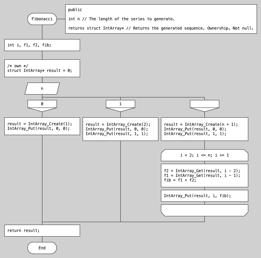 The DRAKON-C chart for generating a Fibonacci sequence.